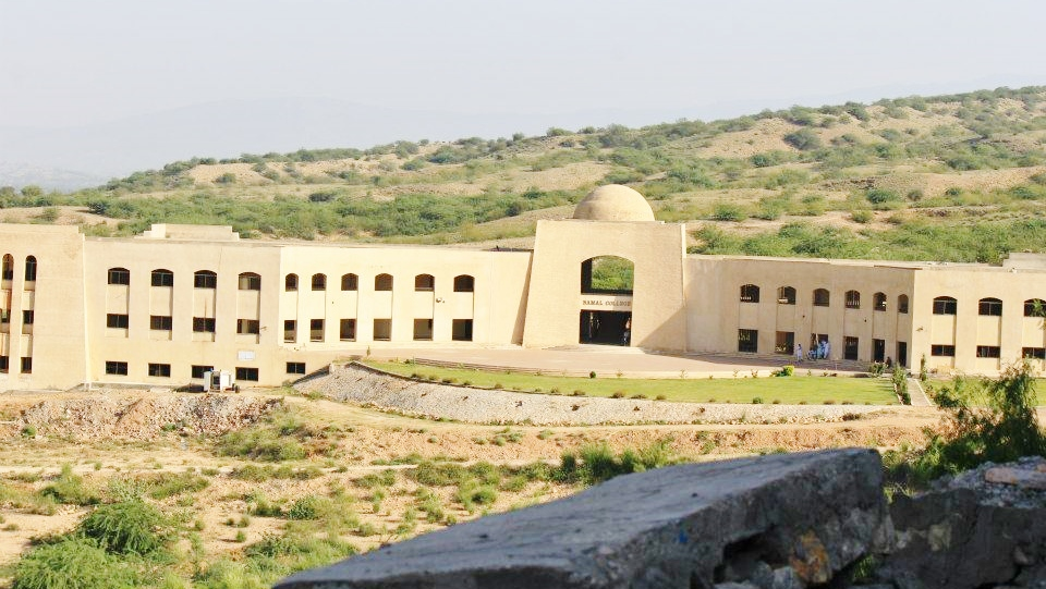 Namal College